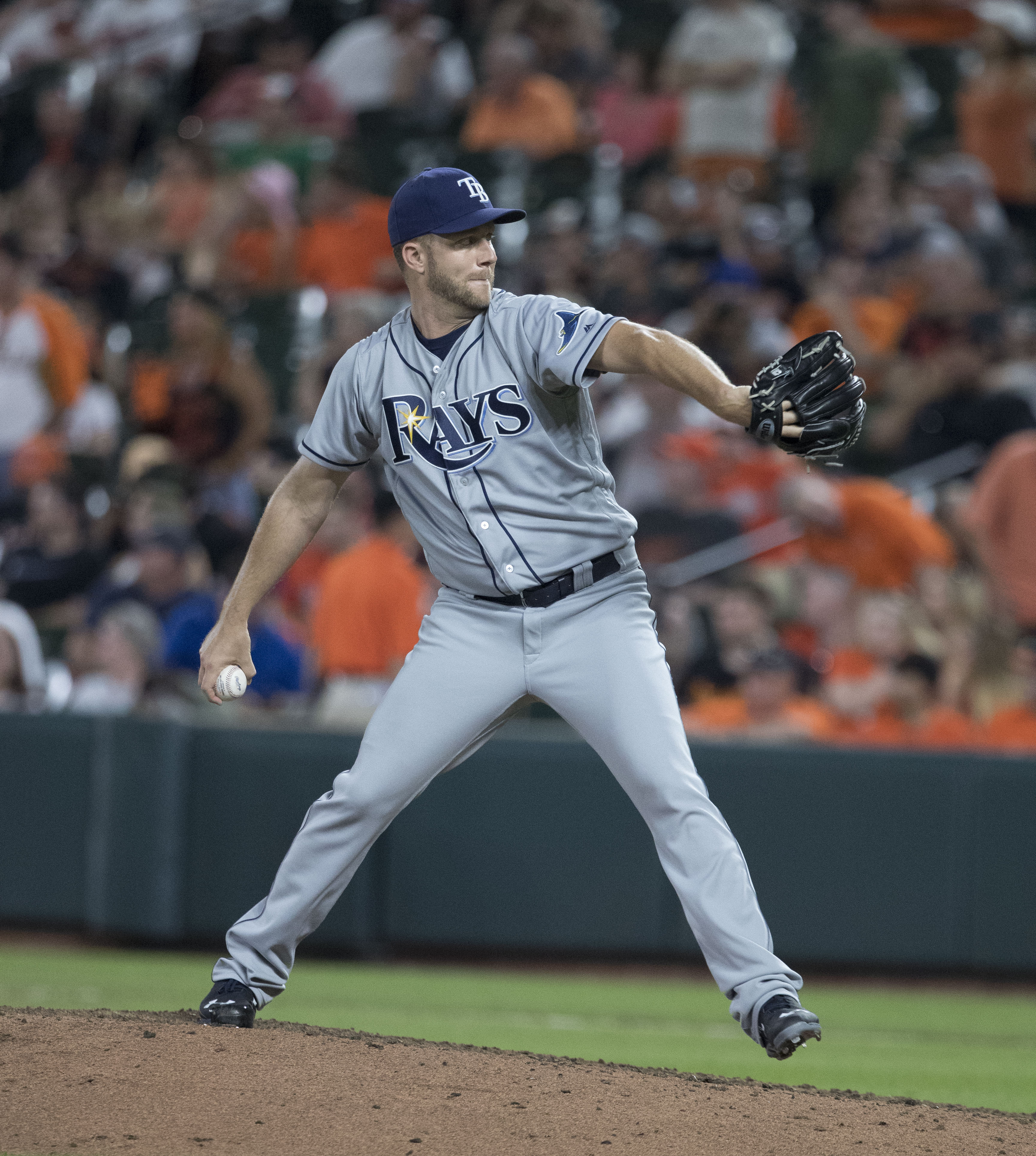 Rays at Orioles 6/30/17